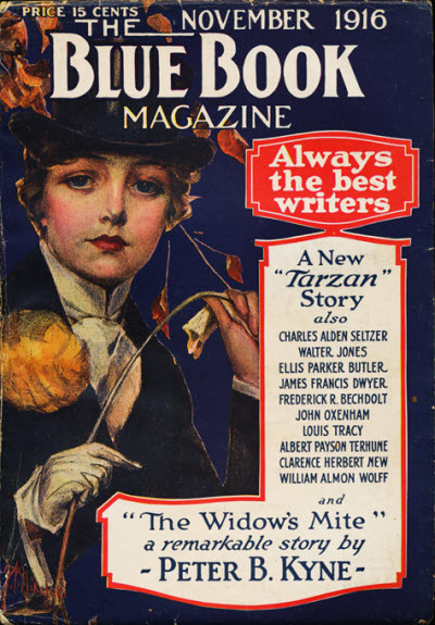 Blue Book Magazine, November 1916